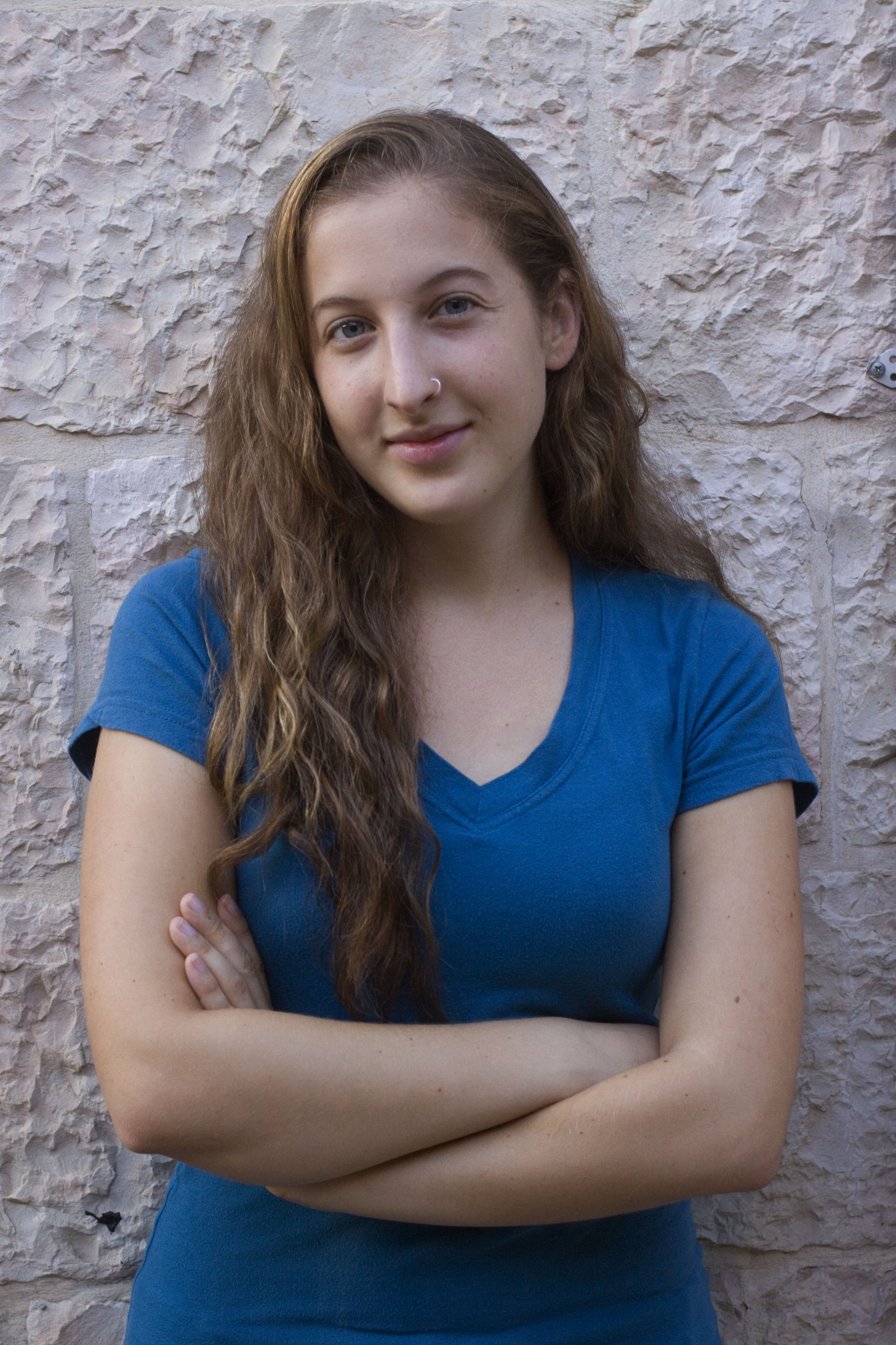 Maya Wind, Shministim, who refused to join the Israel Army. Member of New Profile.